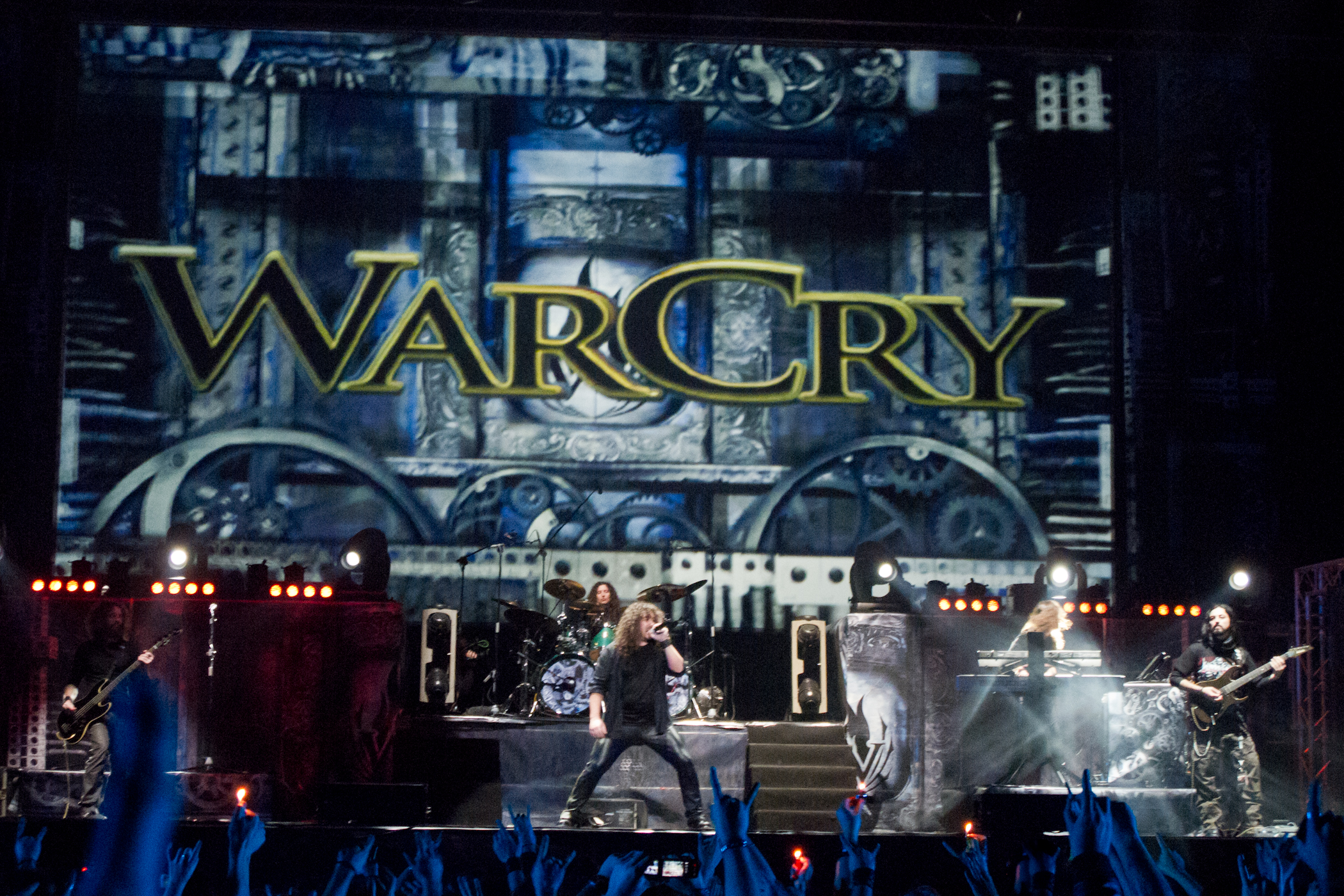 Spanish heavy metal band WarCry in concert in 2012.